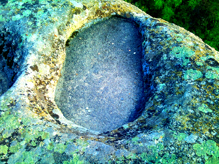 Markow stone 2